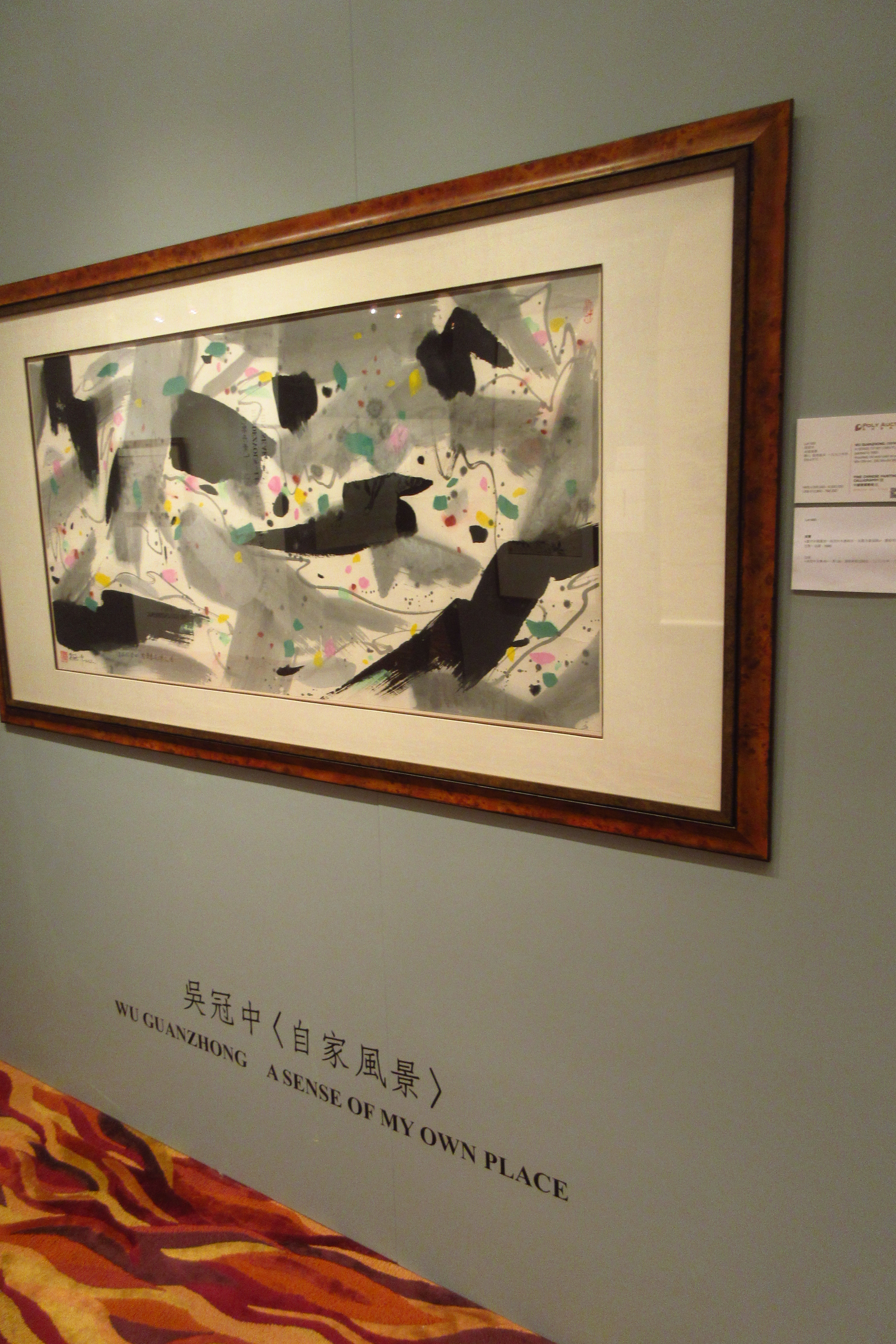 HK 灣仔北 Wan Chai North 港灣道 Harbour Road 香港君悅酒店 Grand Hyatt Hotel Poly Auction pre-view Exhibition April 2018 吳冠中 Wu Guanzhong